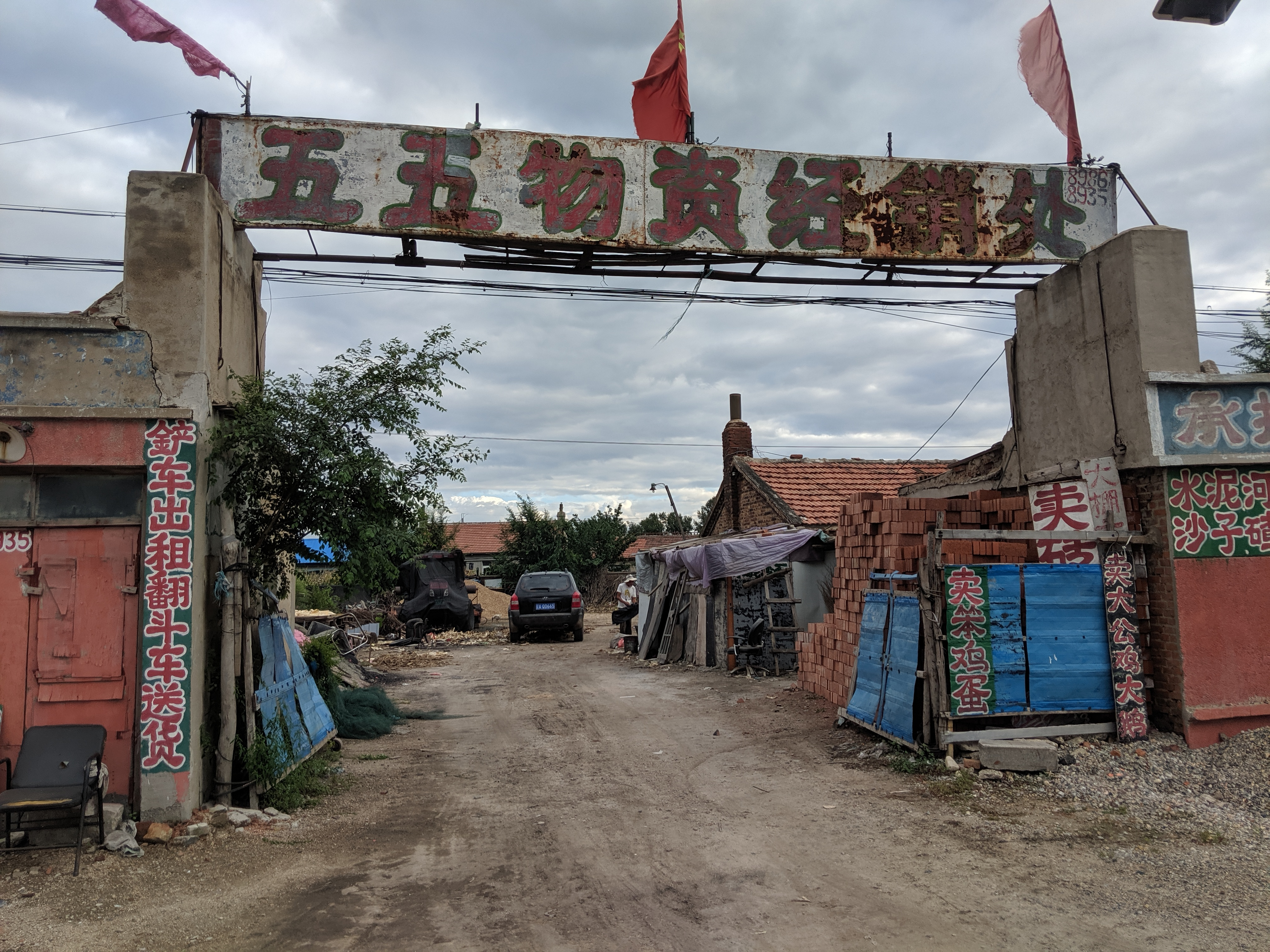 Wuwu village in Shenbei District, Shenyang, Liaoning, China. The African swine fever outbreak in 2018 was originated here. See Category:Wuwu for more details. A market selling goods ranging from cement to chicken eggs. They also provide logistic services. Nobody is here.